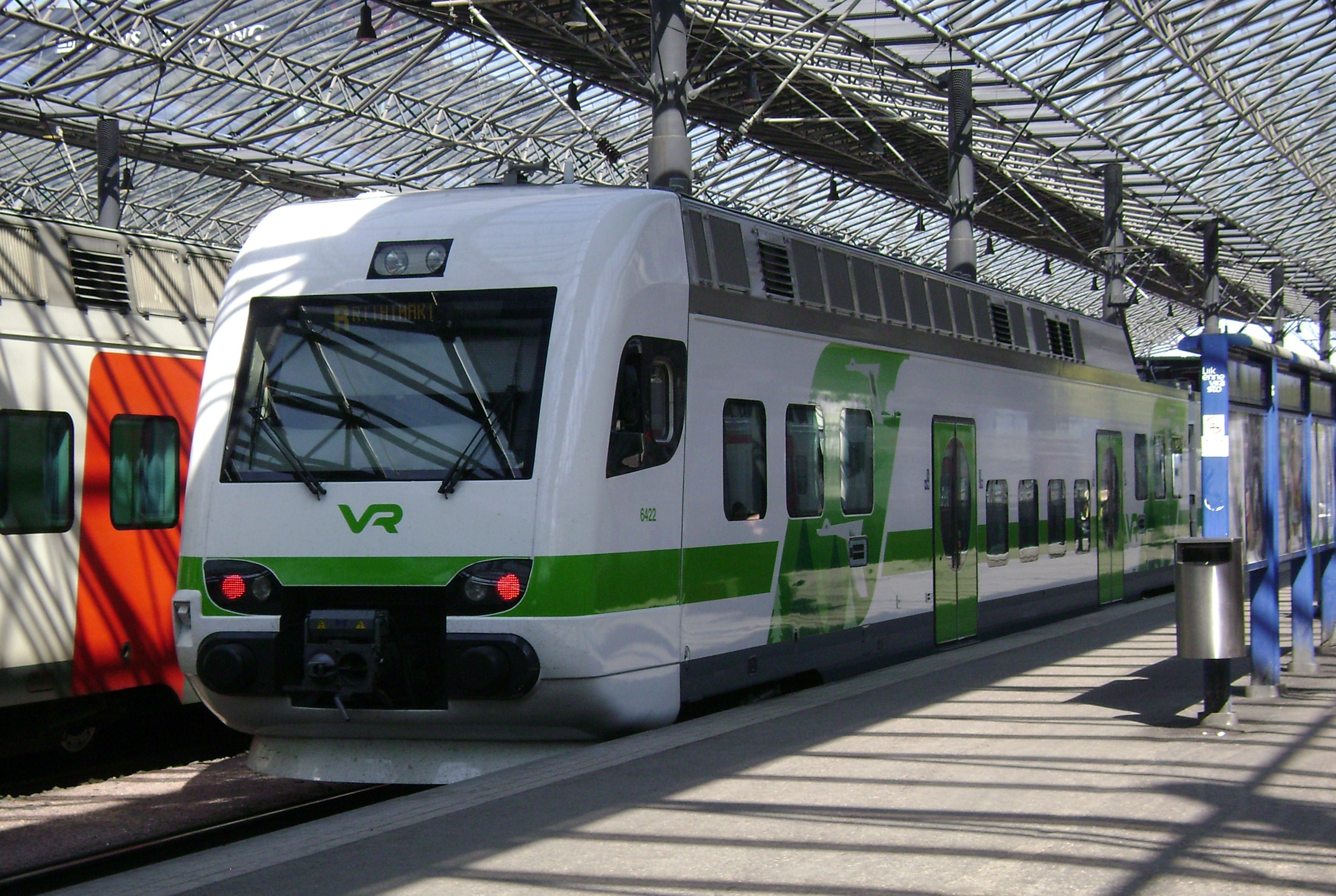 A VR Class Sm4 EMU with new green livery at Helsinki Central station.